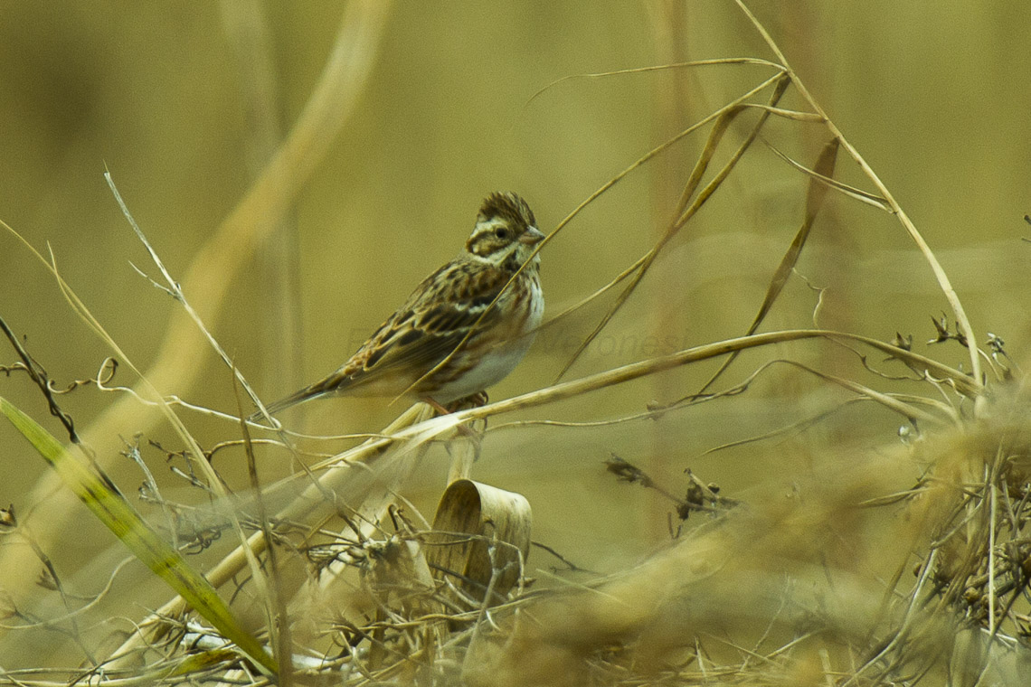 Rustic Bunting - Kyushu - Japan_S4E2311